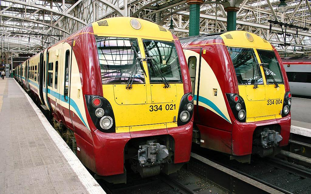 This image was taken by Martin J.Galloway. Donated from the British Photo Encyclopedia Dotonegroup : talk. British Rail Class 334 021 & 004 at Glasgow Central Station, Scotland. en:5 May en:2005. Cropped slightly to remove watermark by Ali'i on 14:23, 12 March 2008 (UTC)